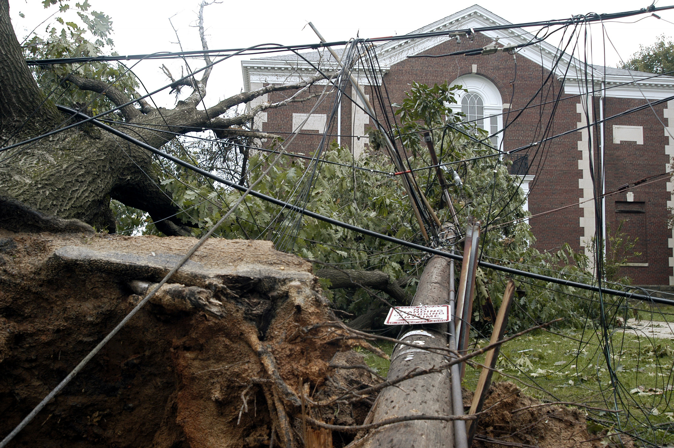 Tree uprooted on the 1500 block of Foxhall Road NW is limits access to power crews and forced temporary closure of this school during Hurricane Isabel in Washington, D.C.